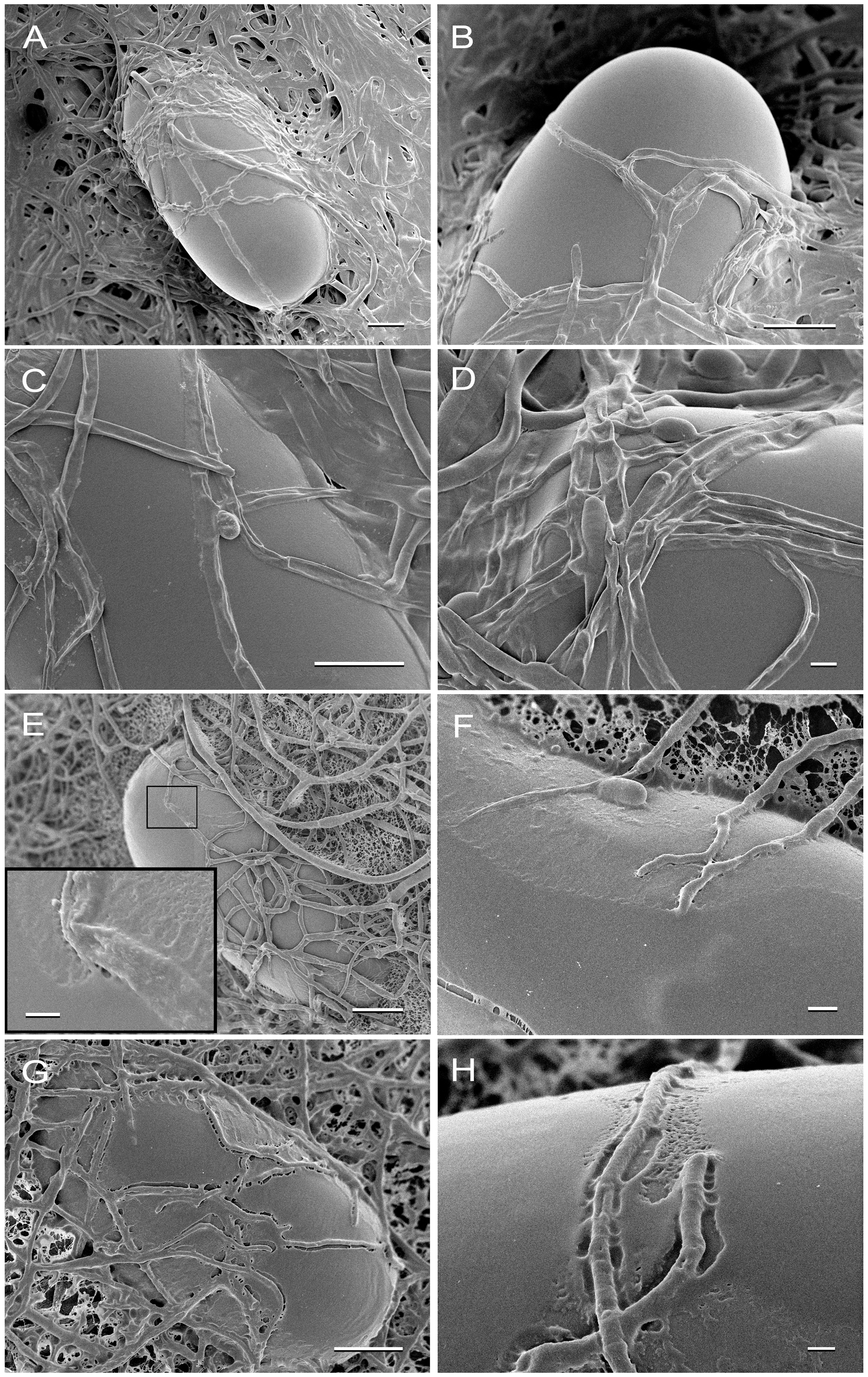 Figure 5. Cryo-SEM micrographs of Pc10 incubated with M. incognita eggs for 24h in different media. Isolate Pc10 was incubated with eggs for 24 h in phosphate buffer (P, Fig. 5A-B), P+2% glucose (Fig. 5C–D) or P+ 200 mM ammonium chloride (Fig. 5E–H). In Fig. 5A, B, C, E and G, bar = 10 µm, in Fig. 5D, E inset, F and H, bar = 1 µm.